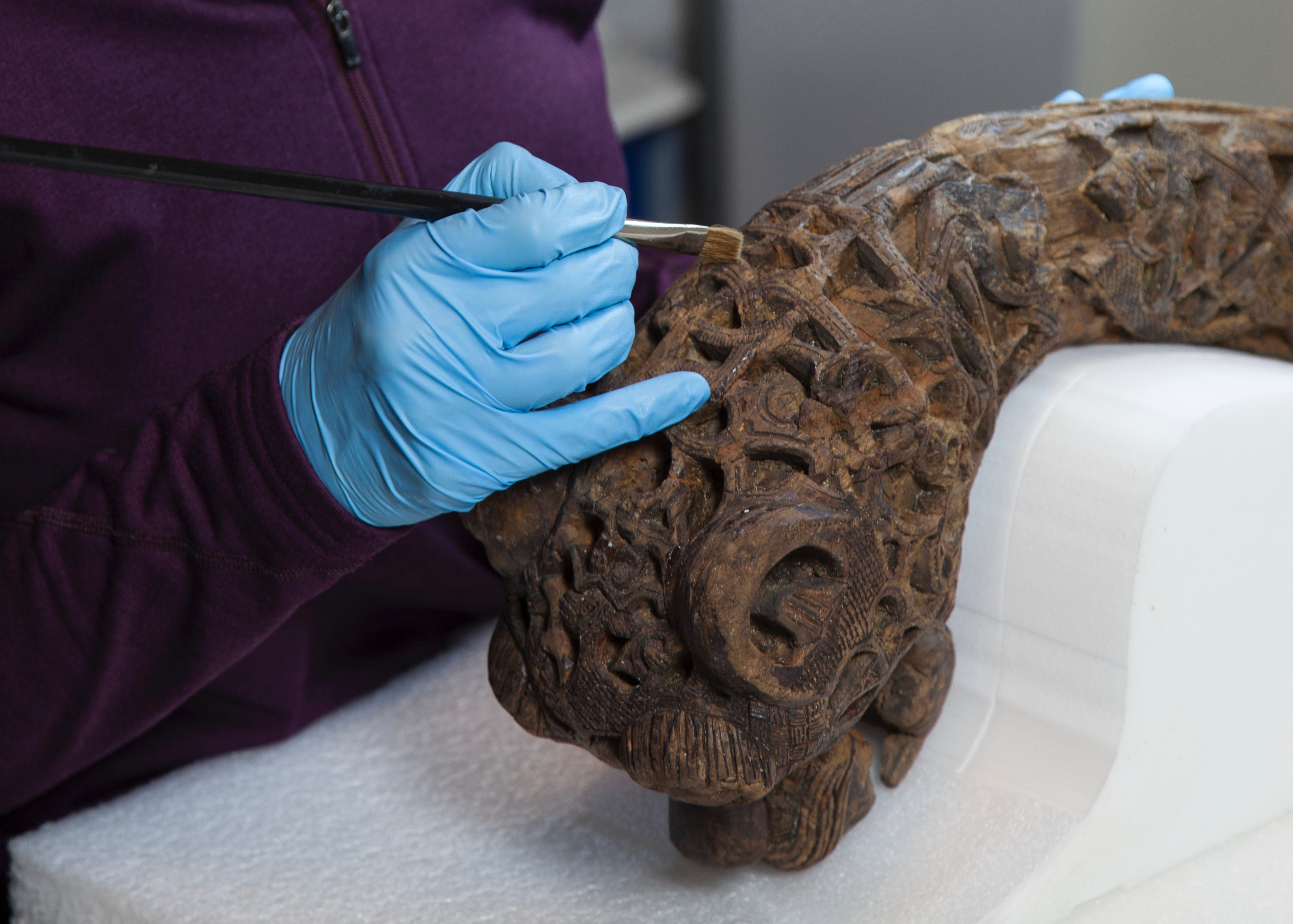 Five unique Viking Age wooden posts with carved animal heads were discovered in a burial mound near Tønsberg (100 km southwest of Oslo, Norway) in 1904. The find consisted of a Viking ship (the Oseberg Ship), numerous wooden and metal artefacts, textiles and even sacrificed animals used as offerings to the two buried women. The animal-head posts are elaborately decorated with animal heads and patterns with gripping beasts in the Oseberg Style, an early style of Norse art. Four of the posts are on exhibition at The Viking Ship Museum ("Vikingskipshuset på Bygdøy") in Oslo. The photo is a detail from a photo copied from the collections of The Museum of Cultural History in Oslo. The photo shows restoration/conservation of the animal-head post "Løvehodet" ("Lion's head") in 914.